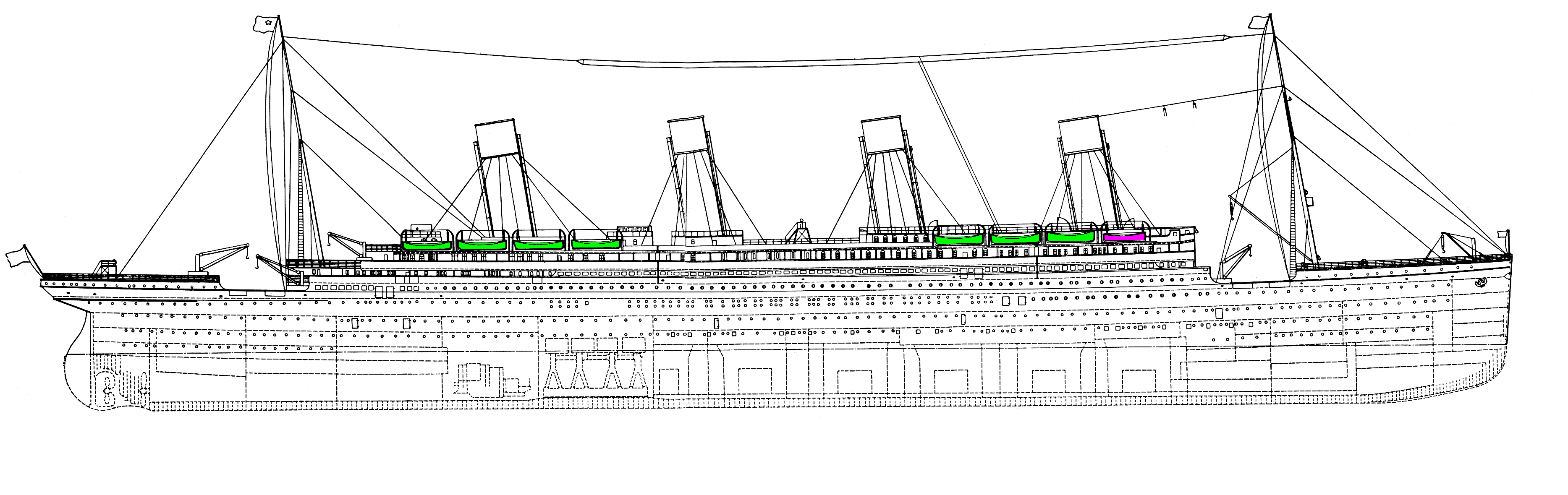 Side plan of the RMS Titanic showing location of lifeboats